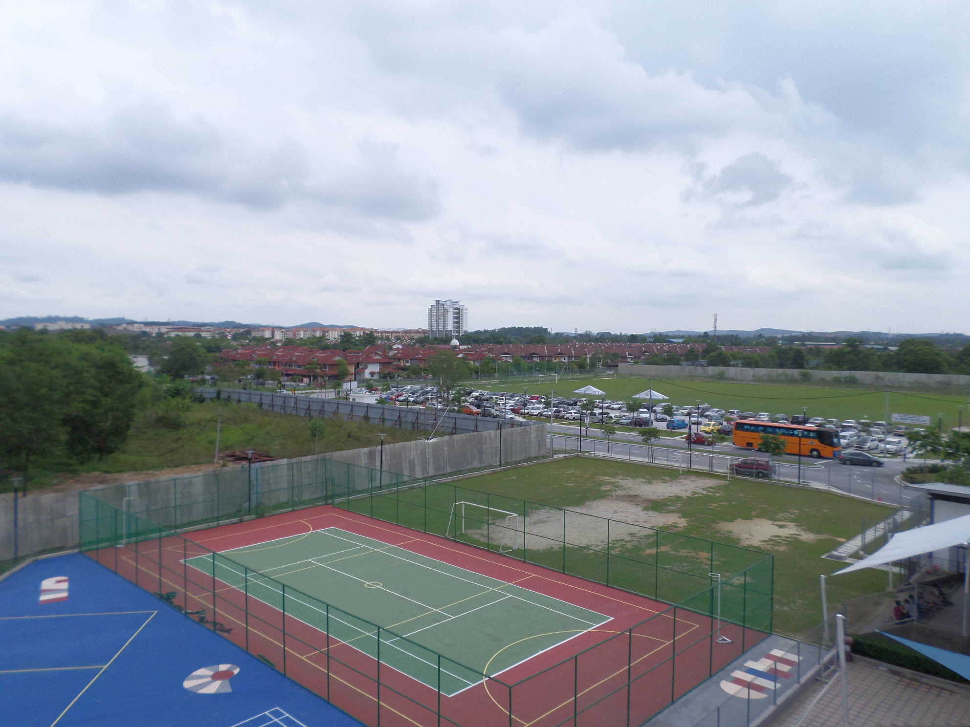 Subang Bestari, Shah Alam, Selangor, MalaysiaBahasa Melayu: Subang Bestari, Shah Alam, Selangor, Malaysia